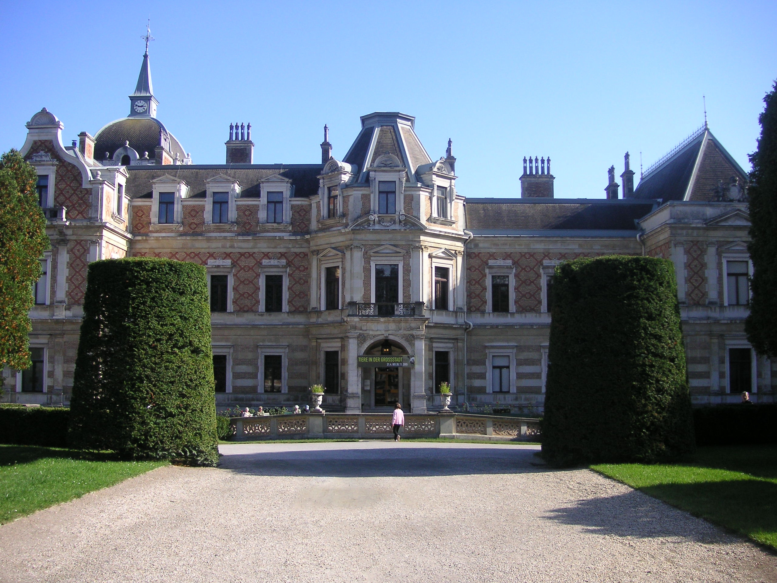 Hermesvilla, Vienna, Austria. Photographed by KF, October 1, 2005.